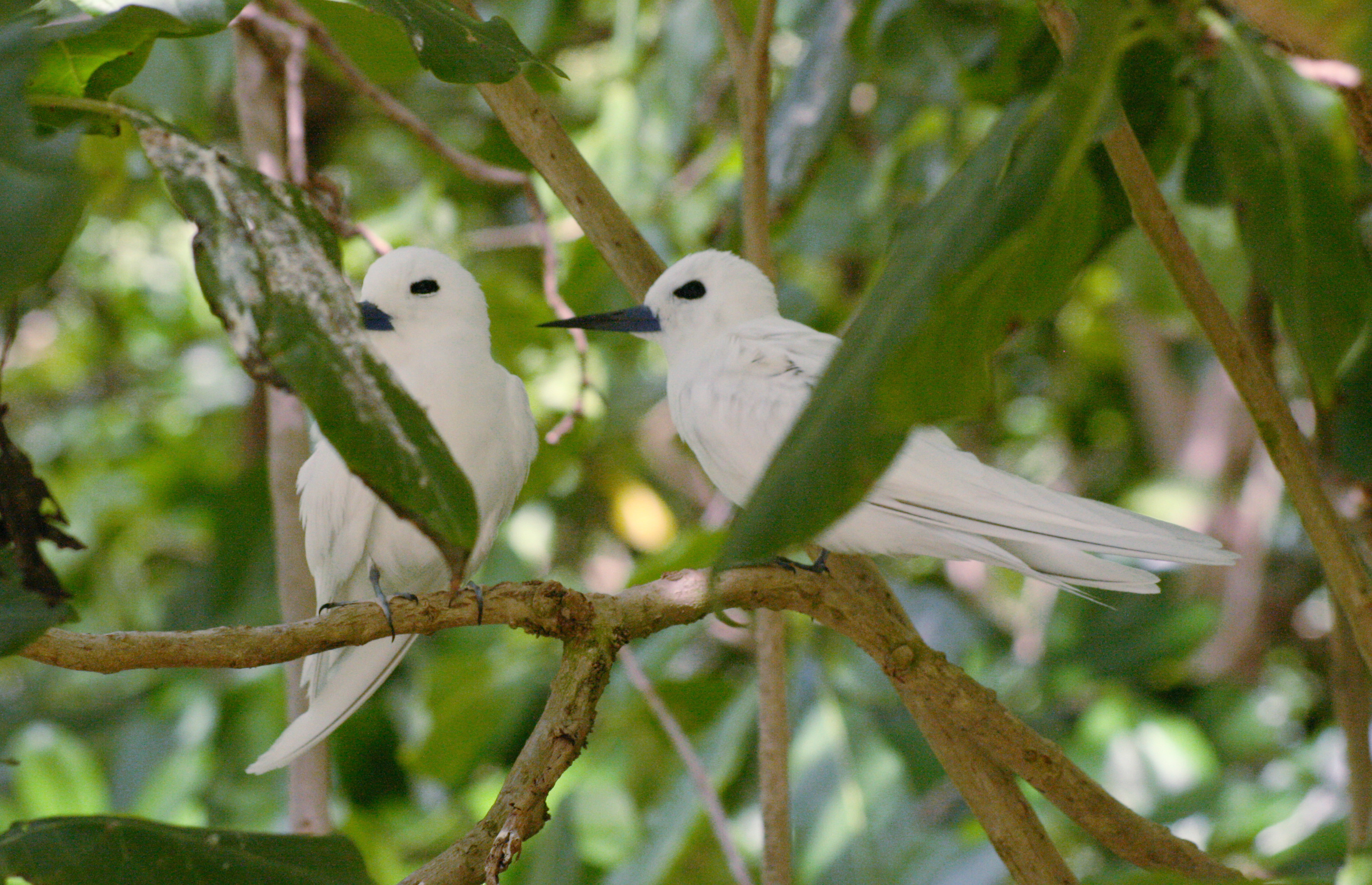 Gygis alba ("White tern") in Cousin Island, Seychelles